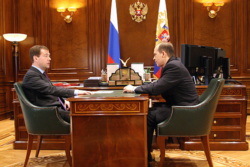 GORKI, MOSCOW REGION. With Director of the Federal Security Service Alexander Bortnikov.